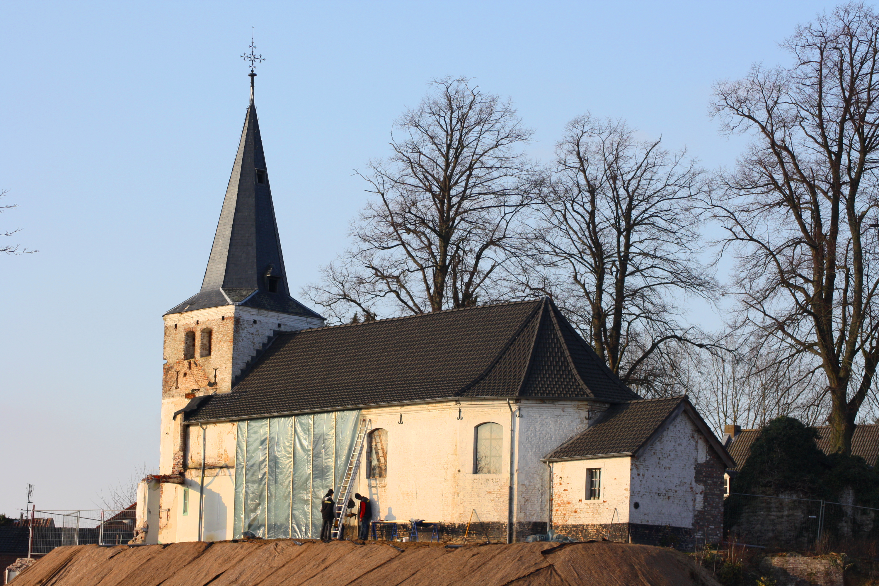 The Sint-Clemenskerk in Brunssum after the demolition of Huize Tieder.